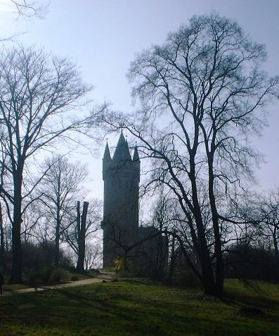 Flatowturm in Babelberg, Potsdam, Germany.